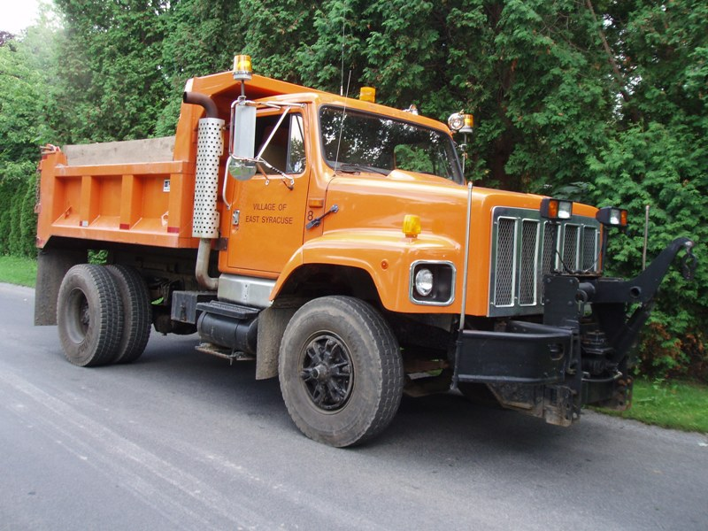 International dumptruck produced by the International Truck and Engine Company, a Navistar subsidiary.(The truck is a S2600)